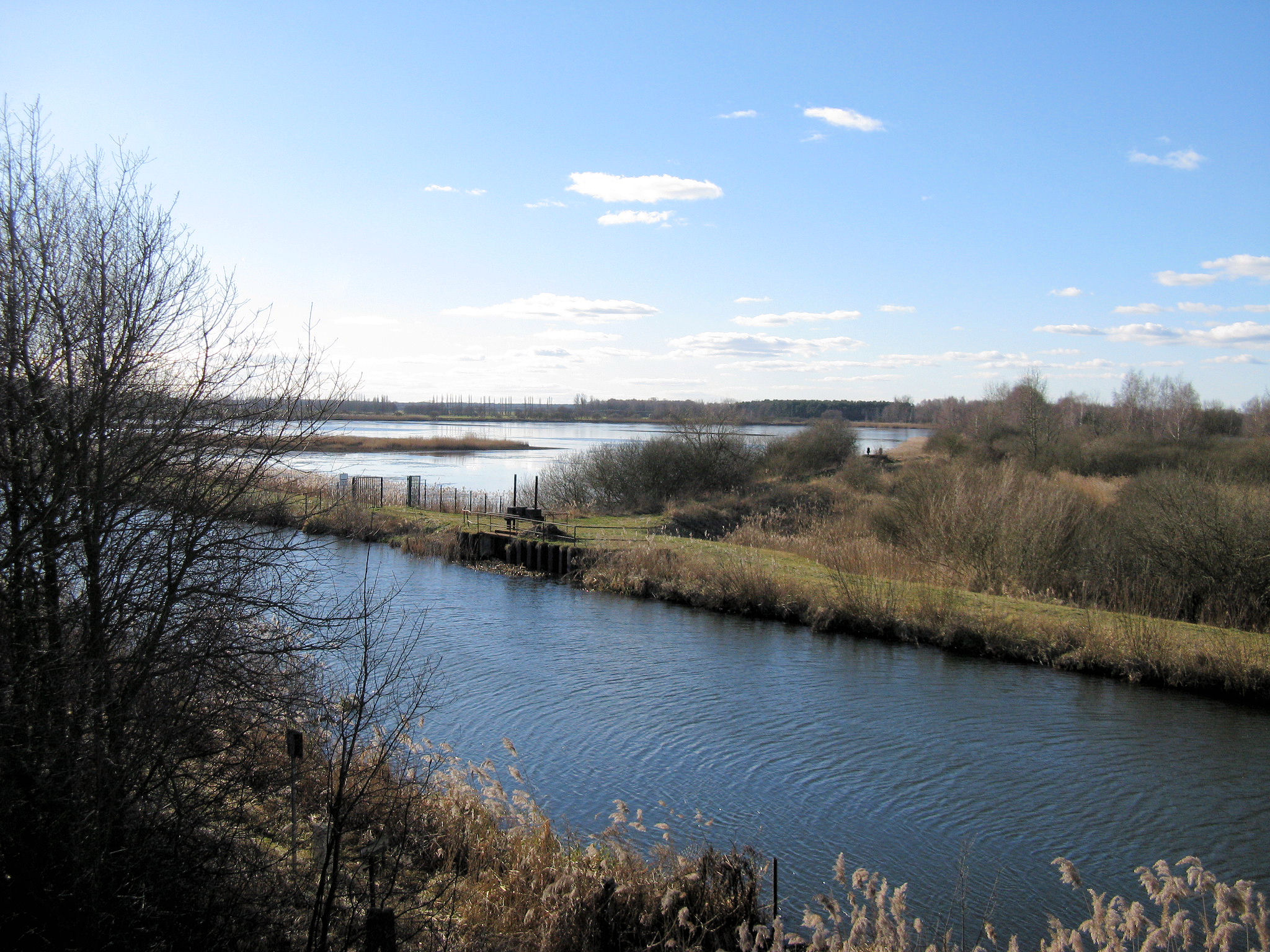 Carp ponds and the Canal Müritz-Elde-Wasserstraße in the north of Neustadt-Glewe, Mecklenburg-Vorpommern, Germany